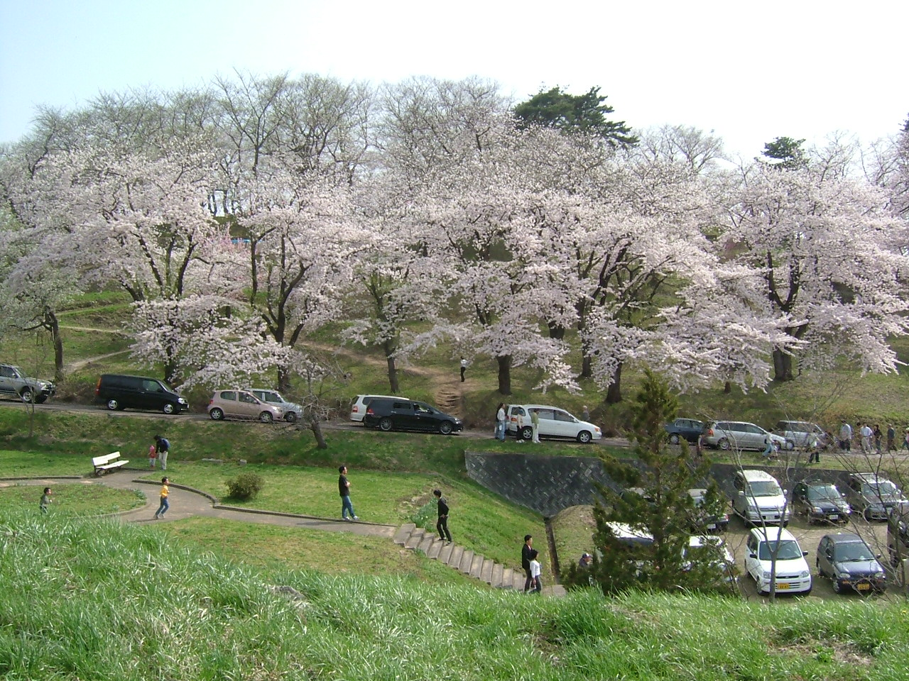 Photo of cherry blossoms in Eboshiyama Park, Akayu, Nanyo City, Yamagata Prefecture, Japan. I took this photo with a digital camera in April 2005.